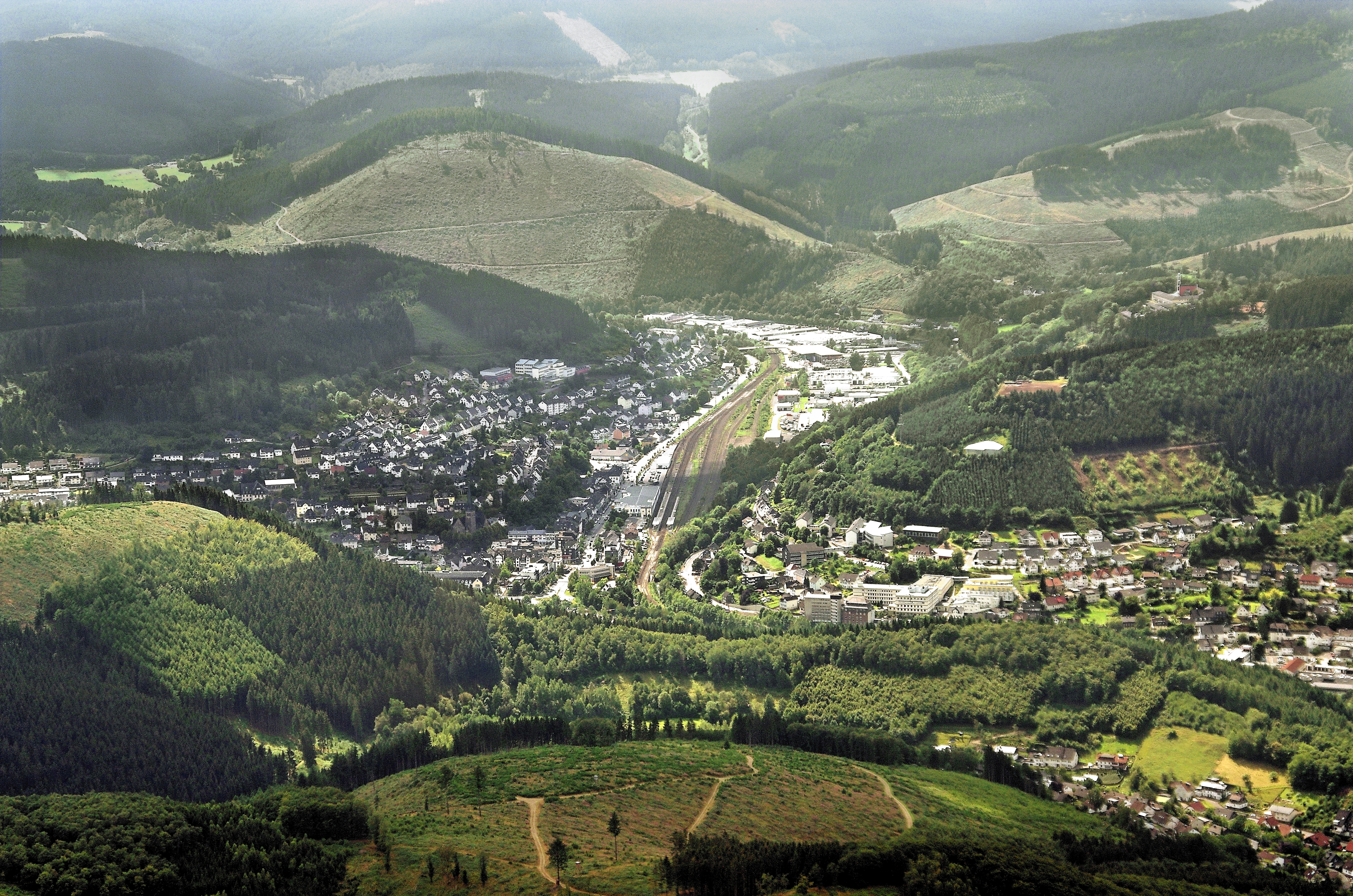 Aerial view of Lennestadt-Altenhundem (seen from the north)